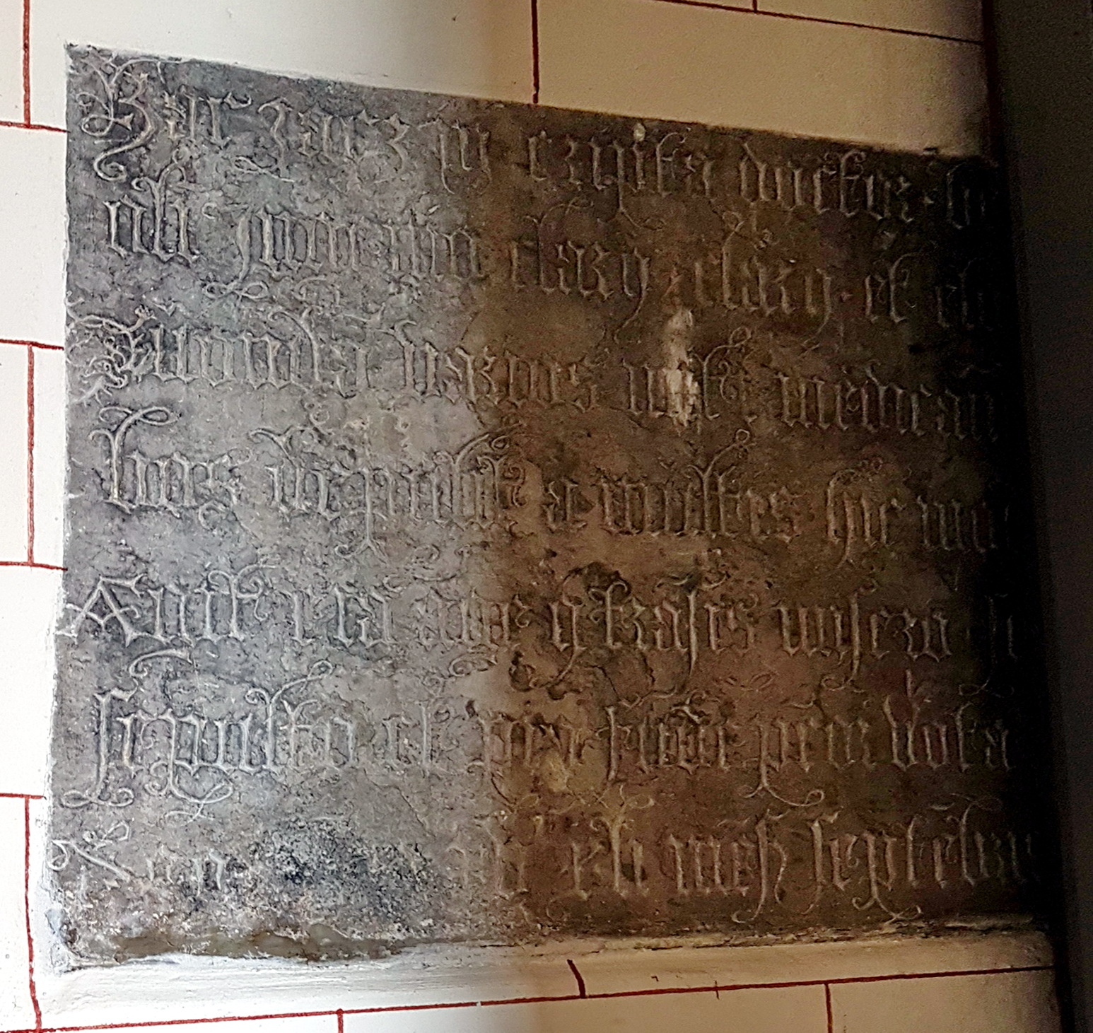 Memorial stone in the south-east portal of the Basilica of Saint Servatius in Maastricht, Netherlands. The epitaph is for Nicolaas Beyssel, canon of Saint Servatius from 1492, who in 1515 built Huis de Torentjes in the village of Sint Pieter near Maastricht.